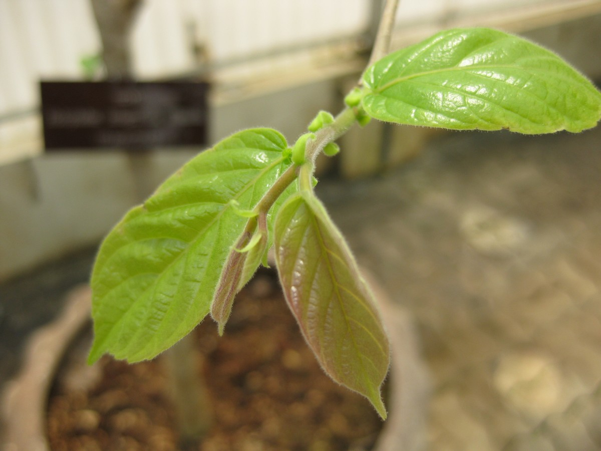 Holoptelea integrifolia (Roxb.) Planch. Photographed at the Queen Sirikit Botanic Garden (Chiang Mai Province, Thailand) in March